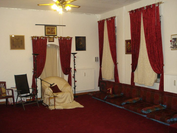 This is the mainromm of the Suficenter Rabbaniyya in Berlin/Germany.